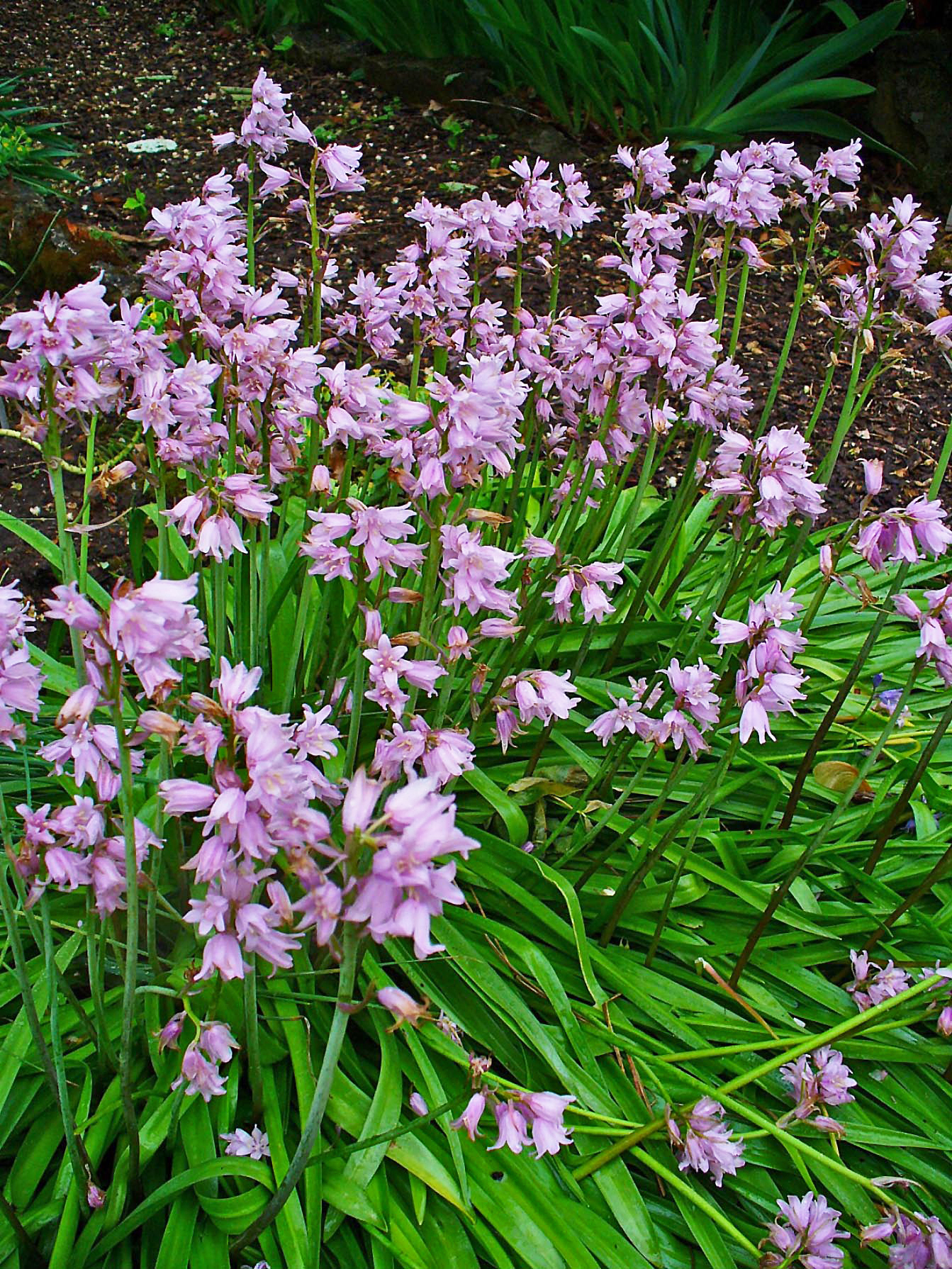 Hyacinthoides hispanica, Hyacinthaceae, Spanish Bluebell, habitus; Botanical Garden KIT, Karlsruhe, Germany.